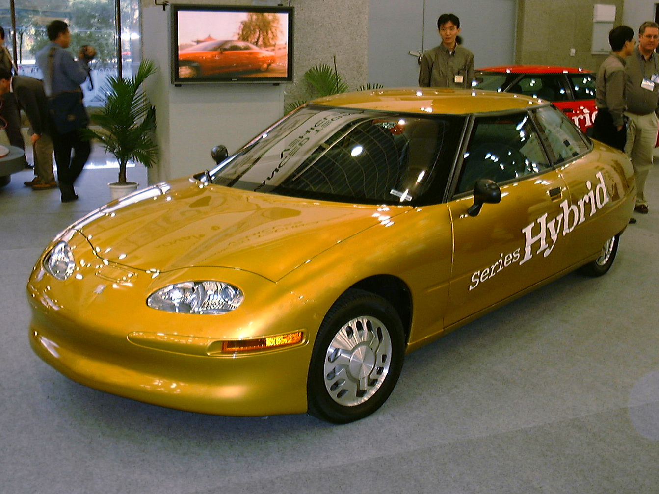 GM EV1 series hybrid prototype shown at the EVS-16 symposium in Beijing, China, 1999.